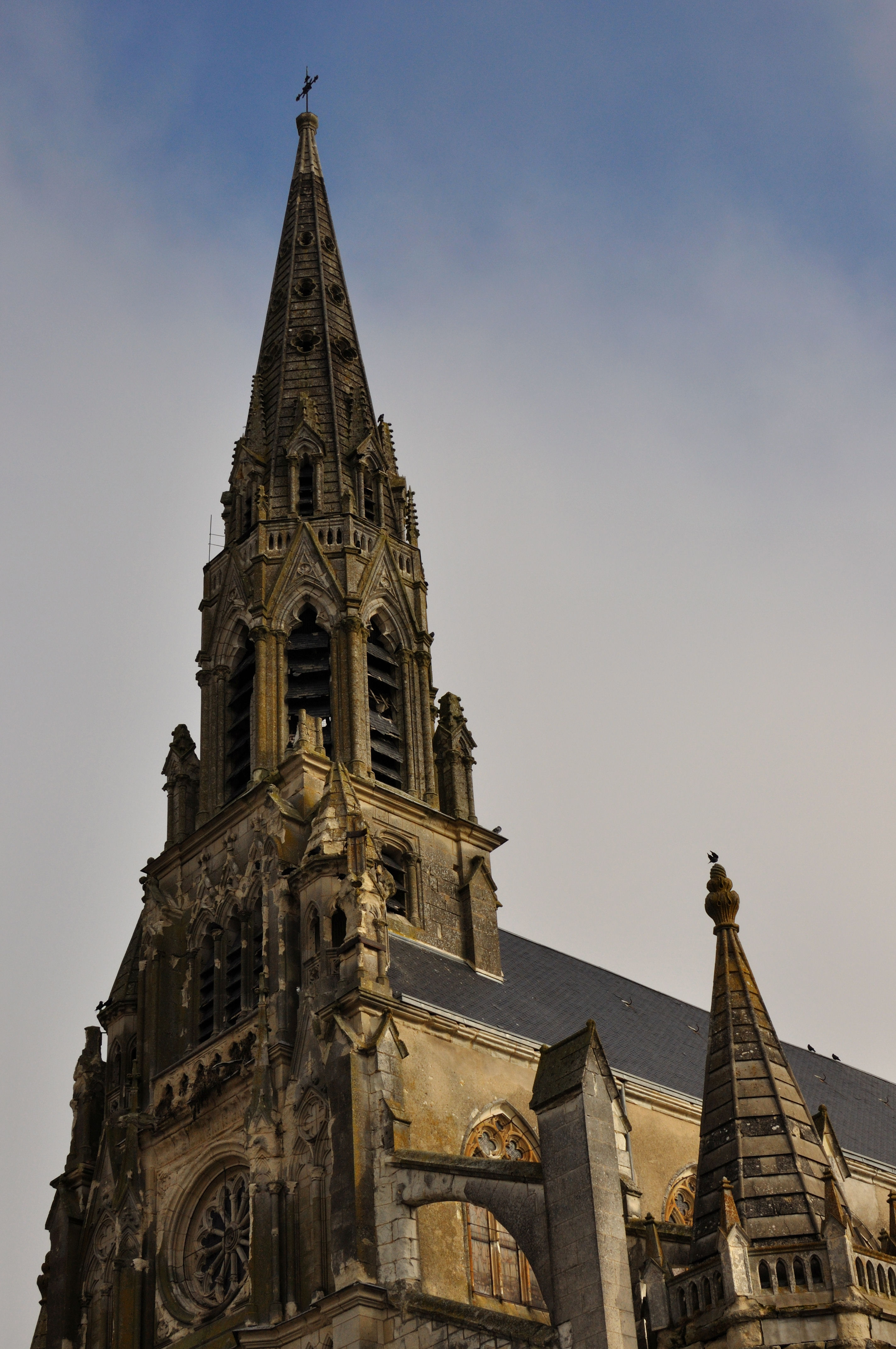 Church of Graçay (Cher, France)